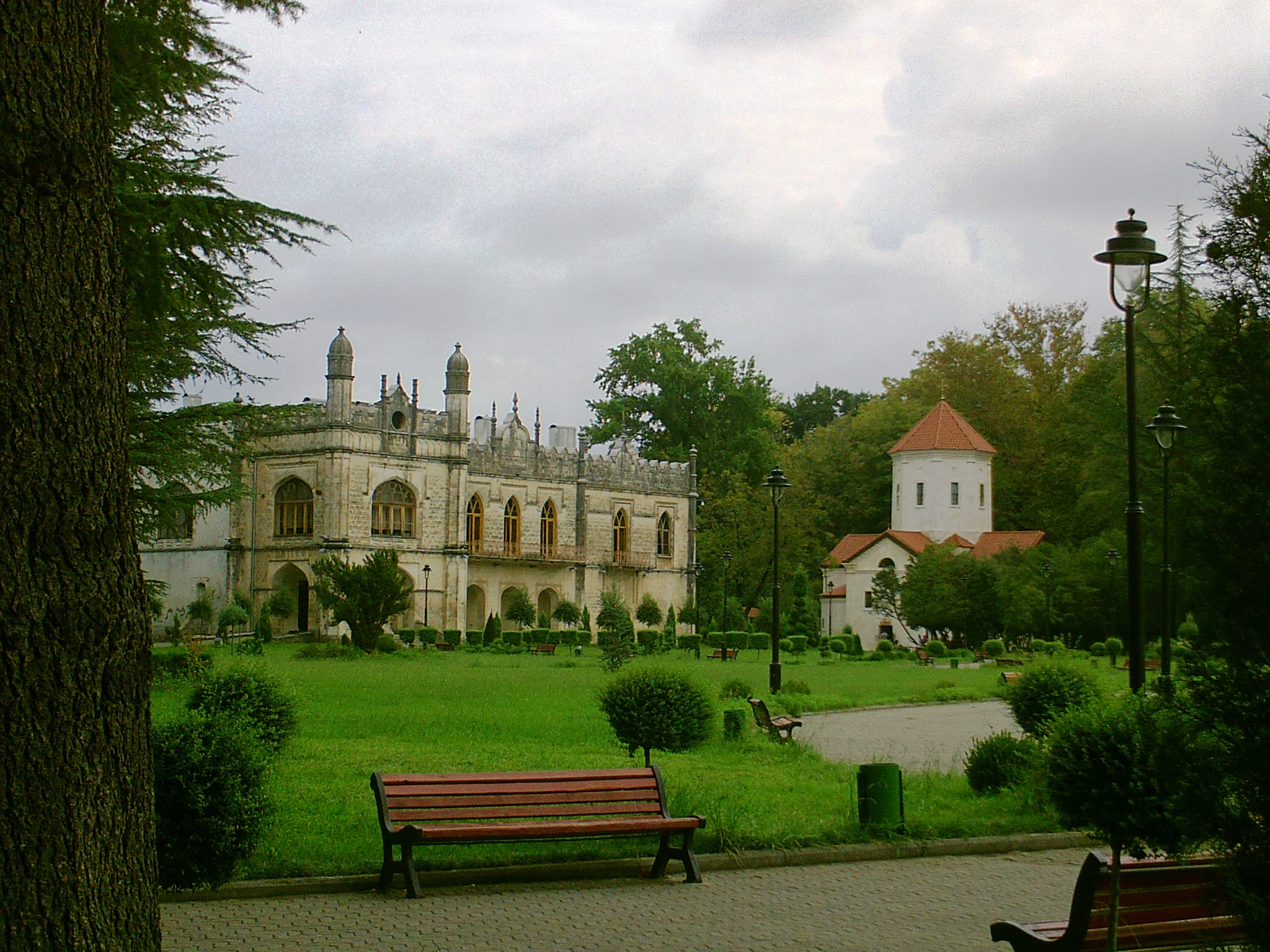 zdggagag